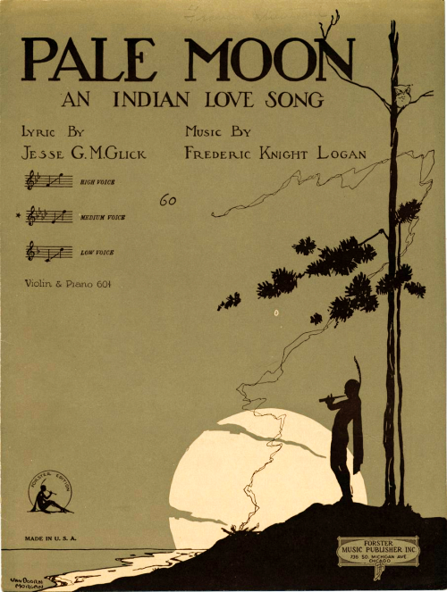 sheet music cover